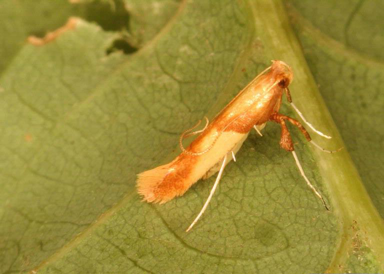 Caloptilia alchimiella, image taken in Hungary.